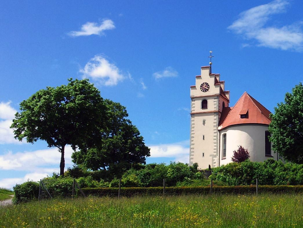 Church of Horn/Bodensee, named "Johannes der Täufer und St.Veit"